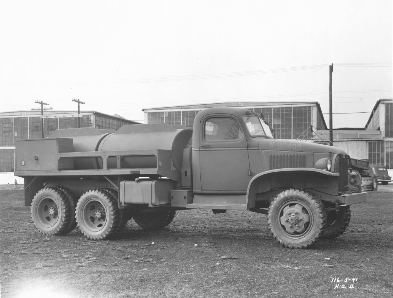 Tanker, GMC, 750 Gallons, 2 1/2 Tons, 6x6.